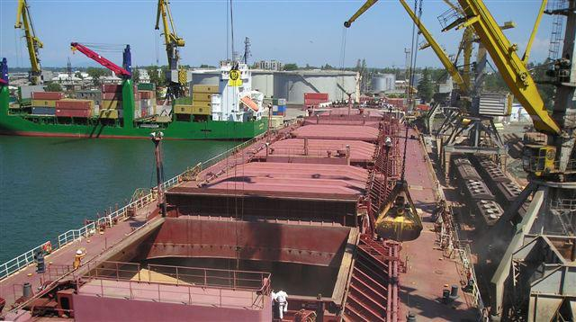 43,000 tons of wheat as it is unloaded in Poti port.